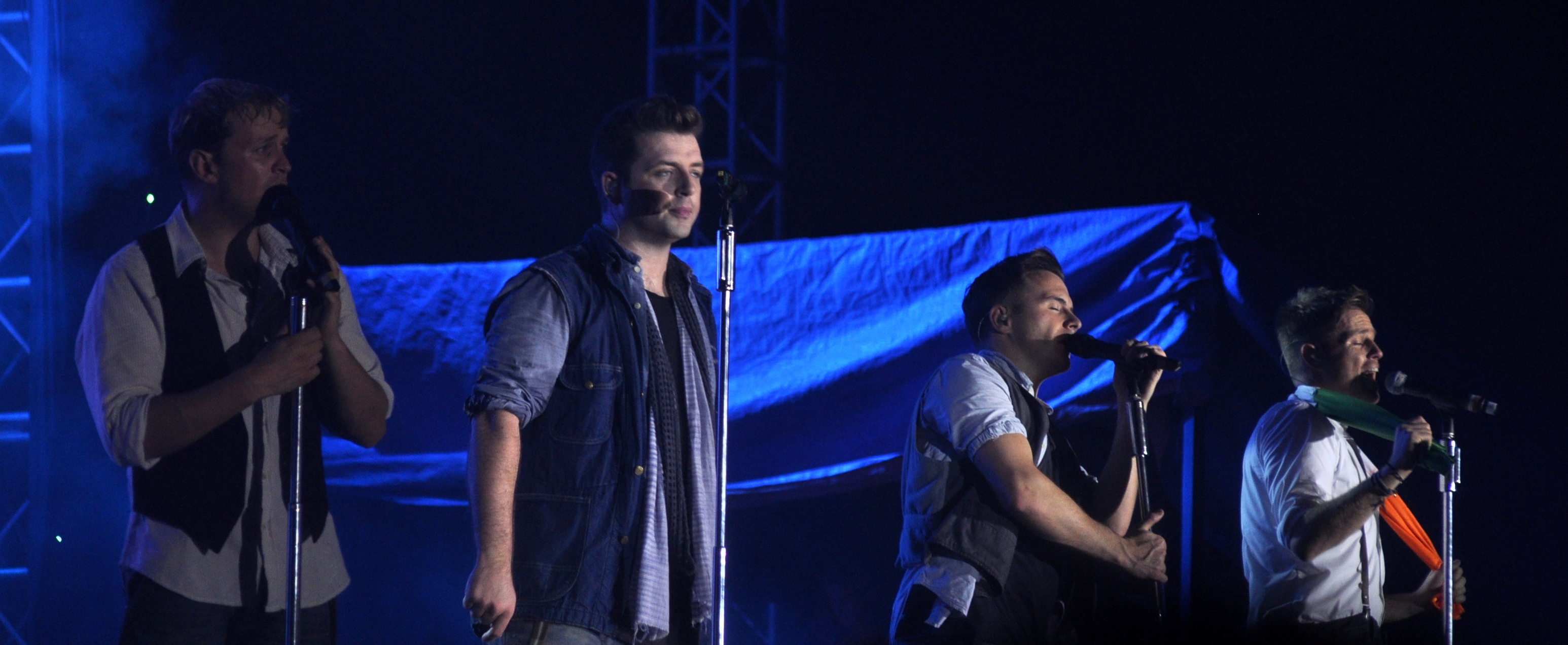 Westlife performing live on Gravity Tour in October 2011 in Hanoi, Vietnam